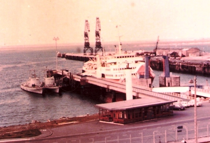 Israel Defense Forces